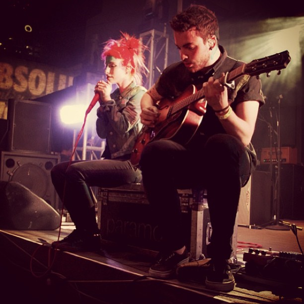 The Belmont